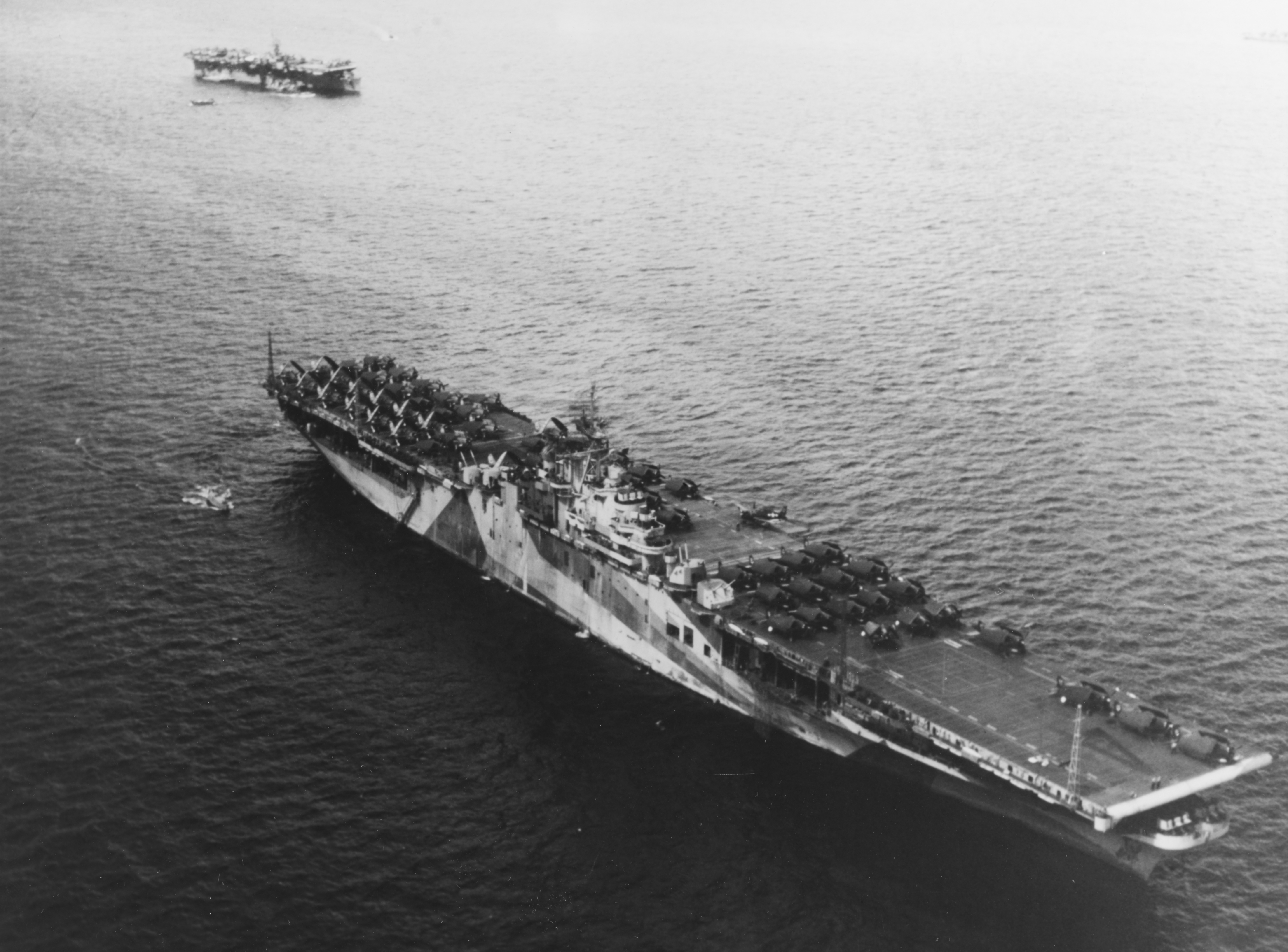 The U.S. Navy aircraft carrier USS Ticonderoga (CV-14) at Ulithi on 8 December 1944. An Independence-class carrier wearing Camouflage Measure 33, Design 7A is visible in the distance, either USS Cowpens (CVL-25) or USS San Jacinto (CVL-30).